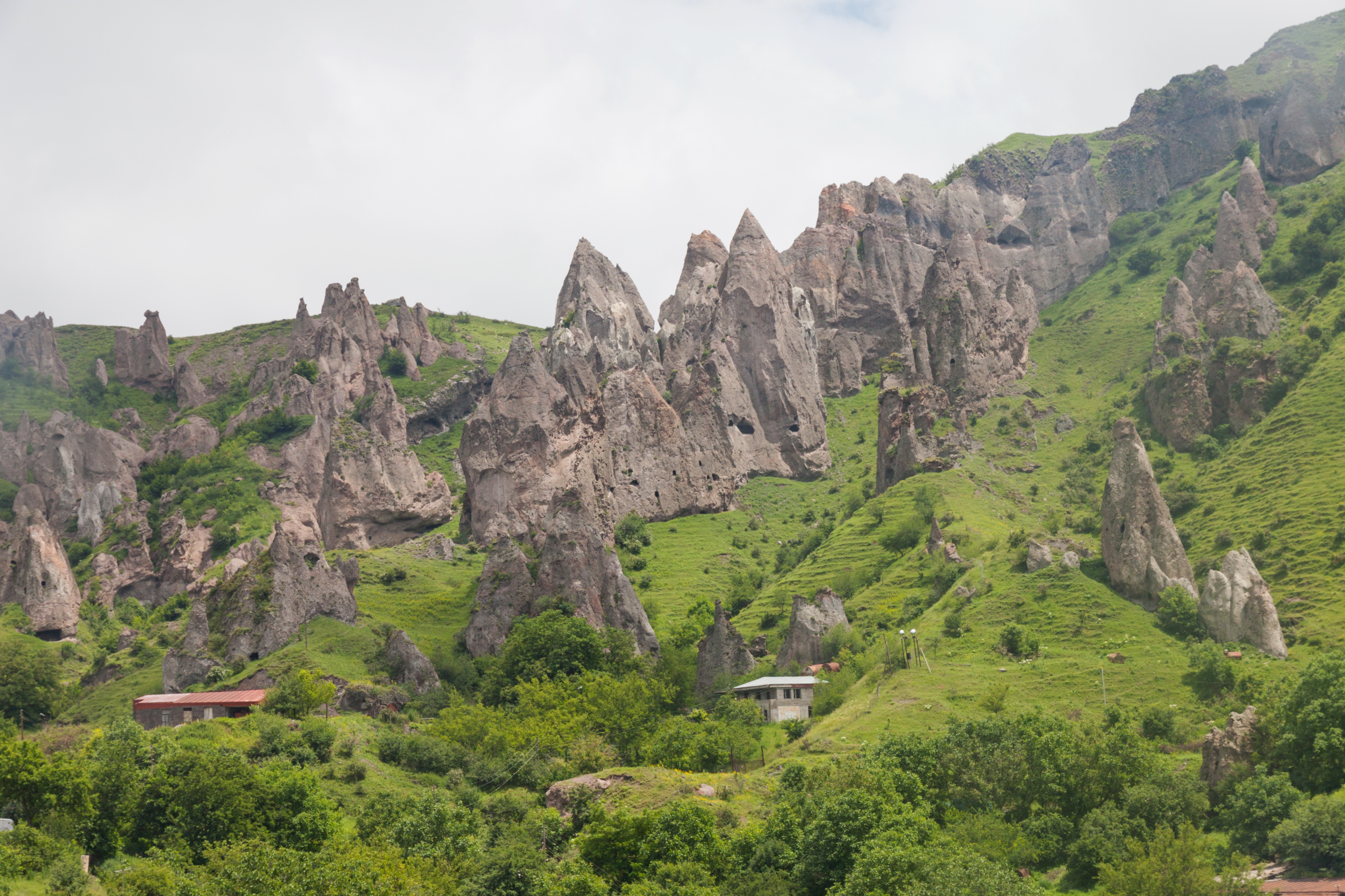 View of the Old Goris (Kores). Goris, Syunik Province, Armenia.